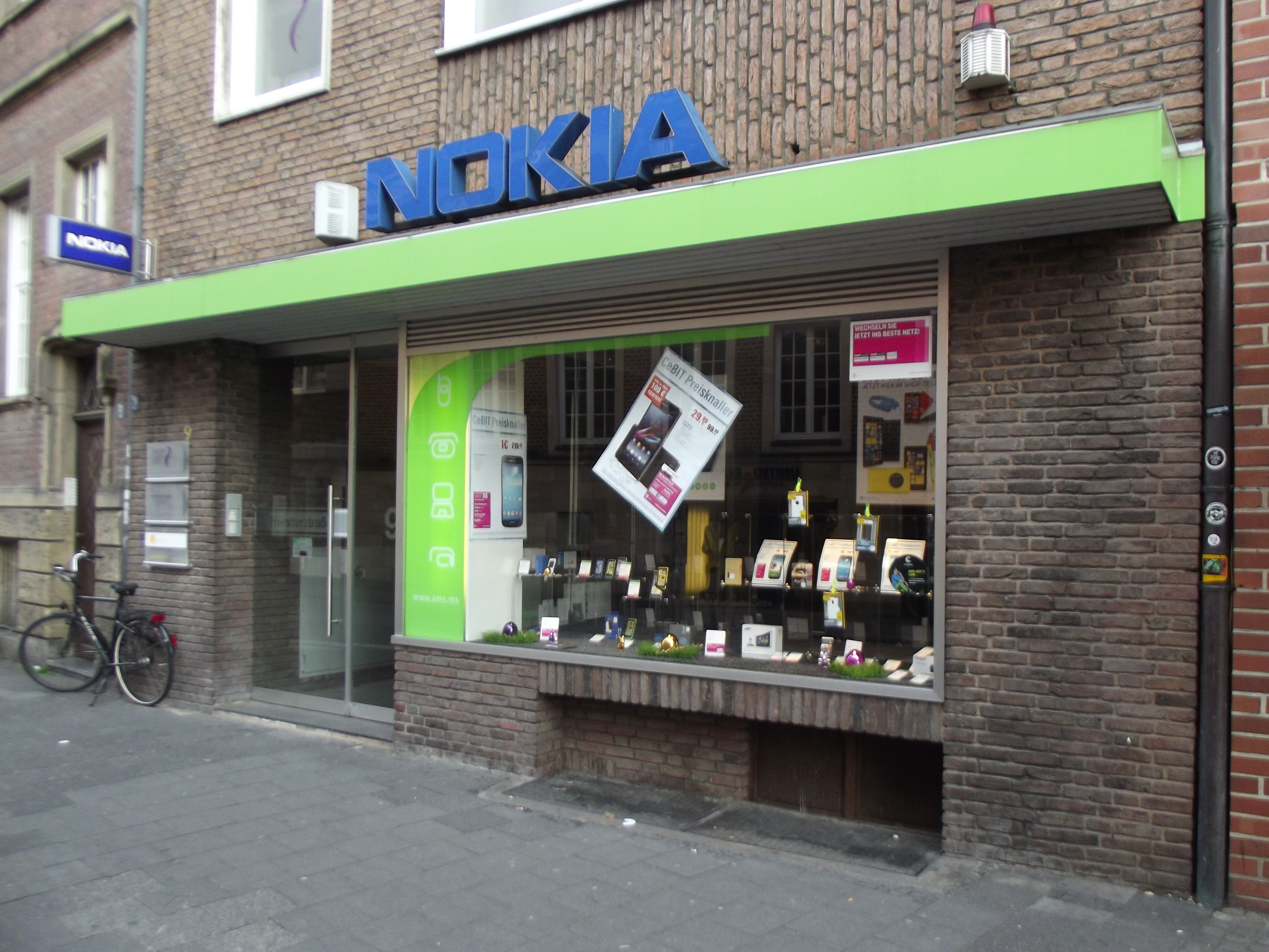 A Nokia shop in Germany (Münster, Westphalia)